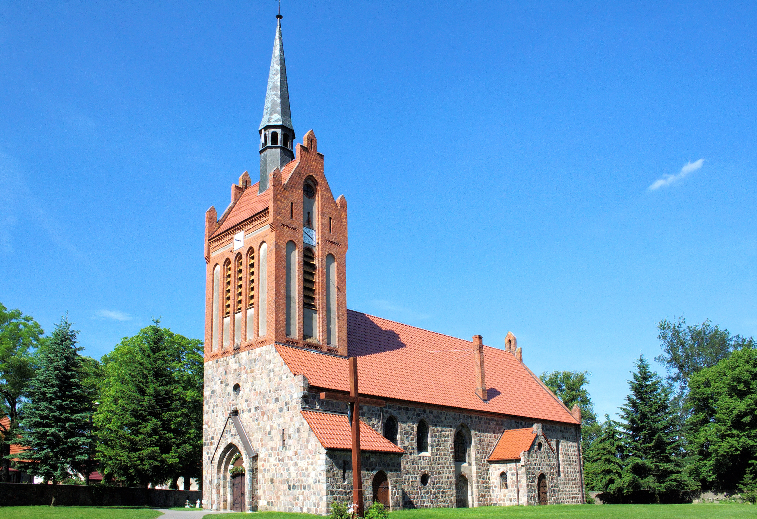 Church in Dargomysl